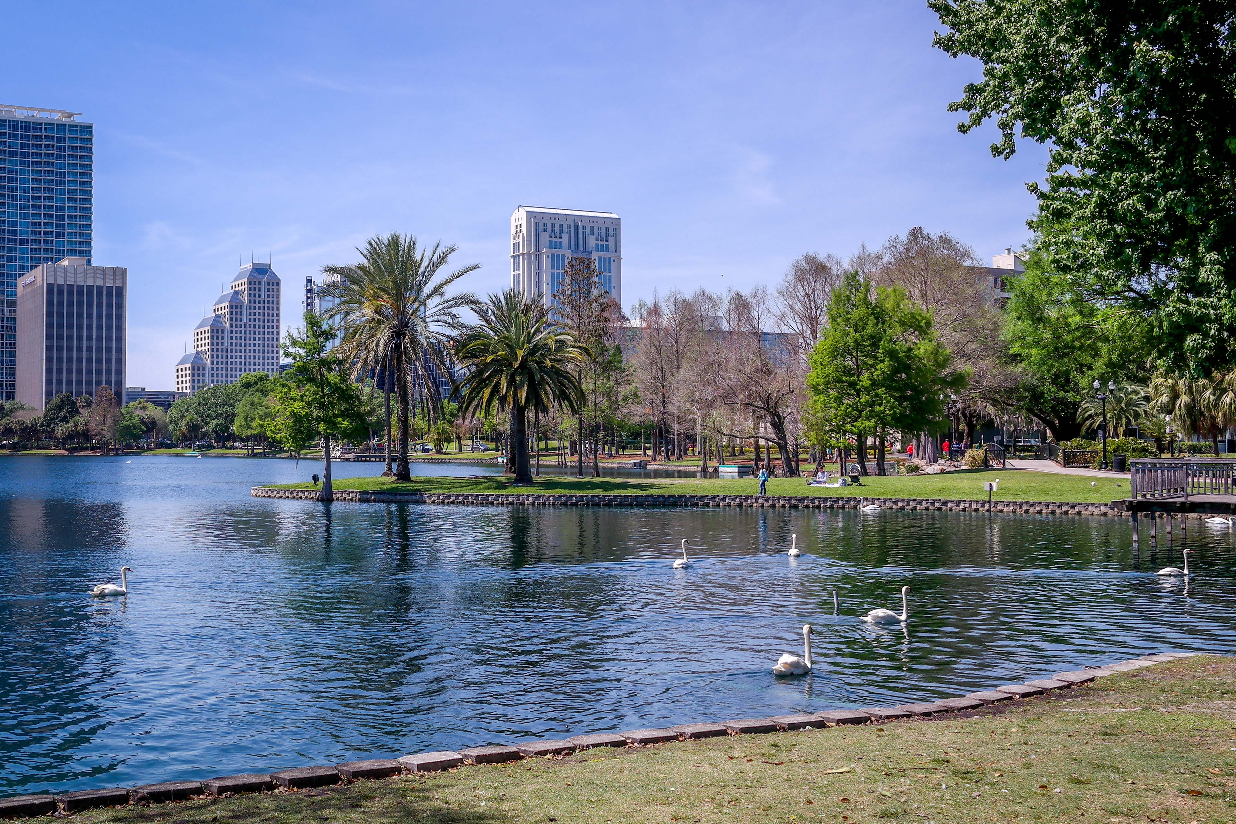 Lake Eola Park in Orlando, Florida